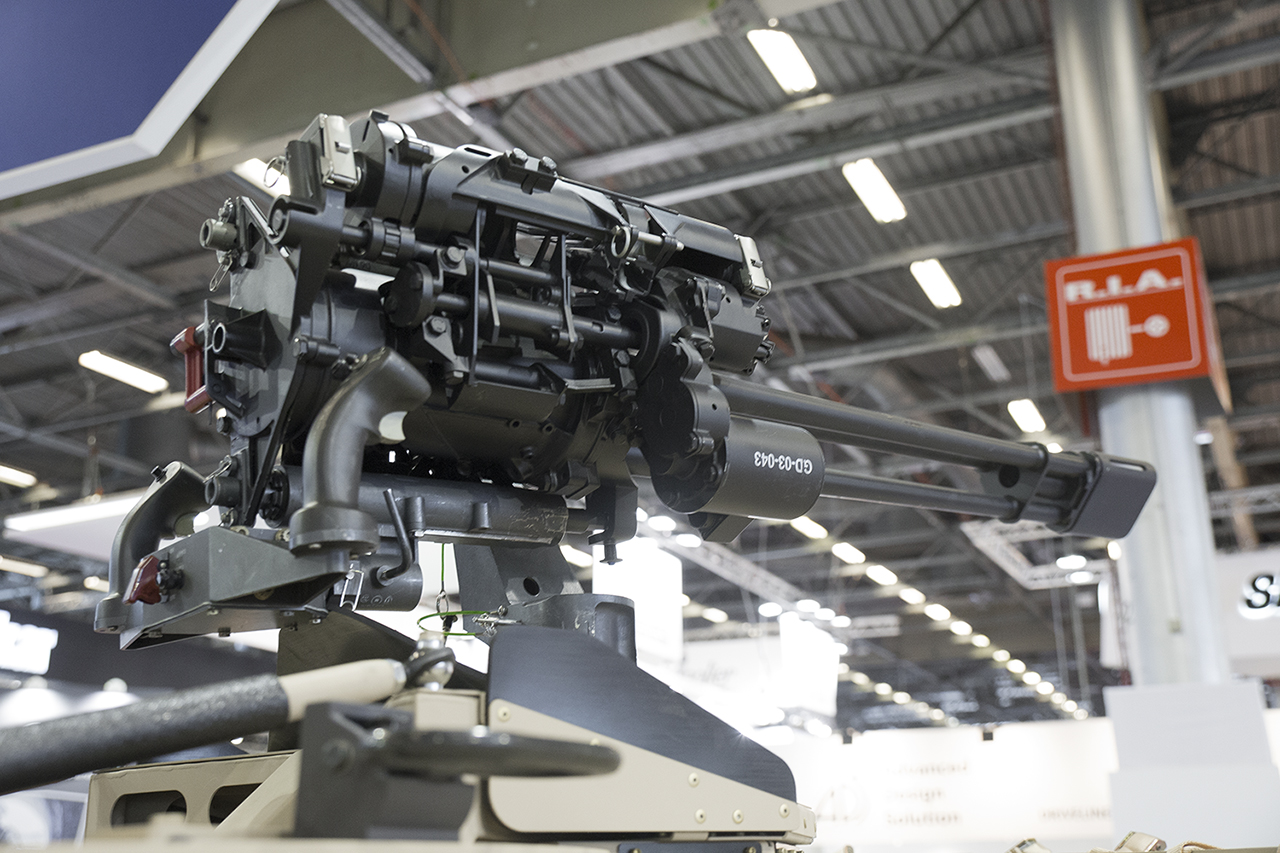 GECAL 50or GAU-19/B, mounted on a military vehicle. Eurosatory Paris, 2016.